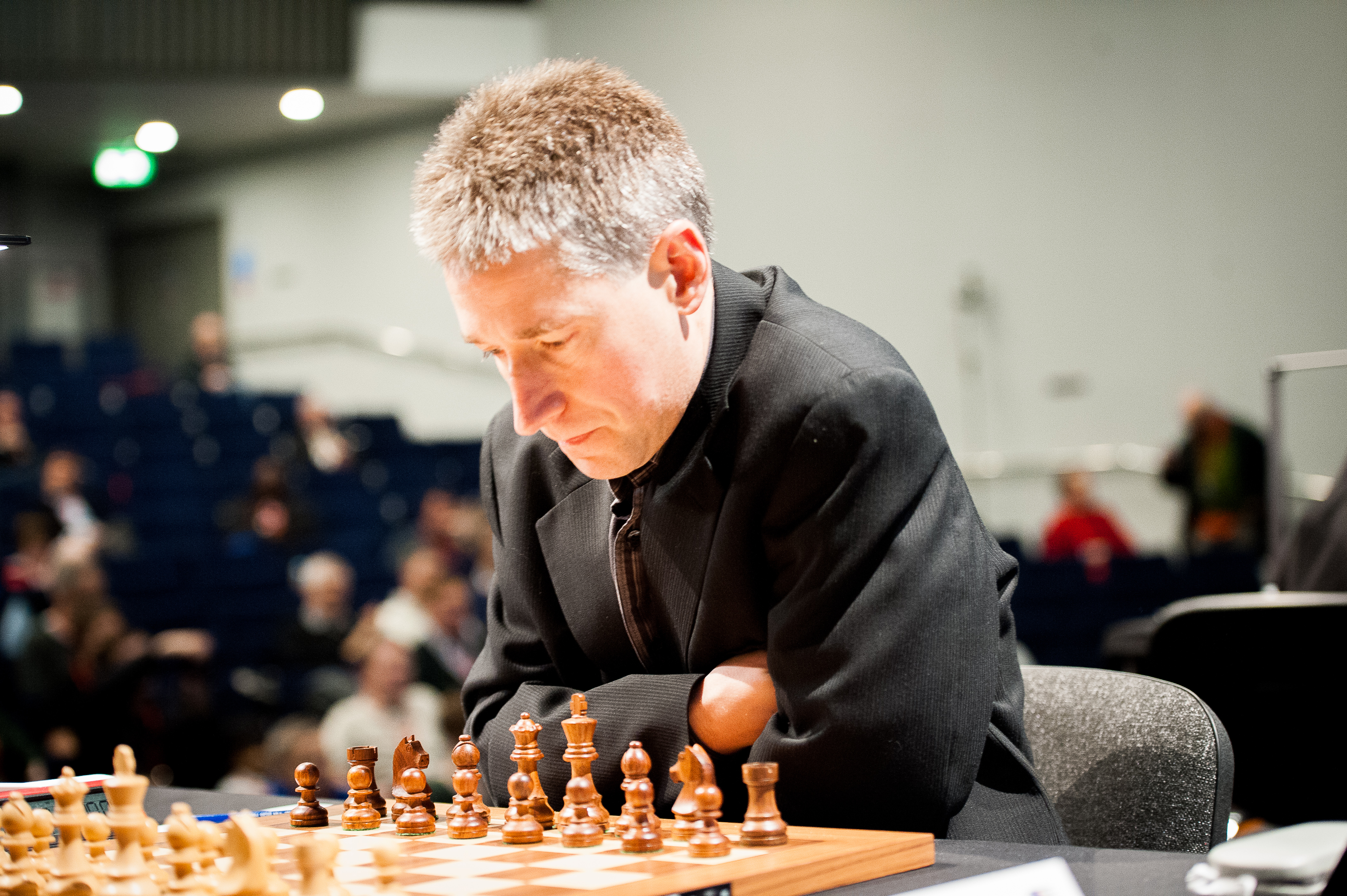 GM Michael Adams, World Nr. 19